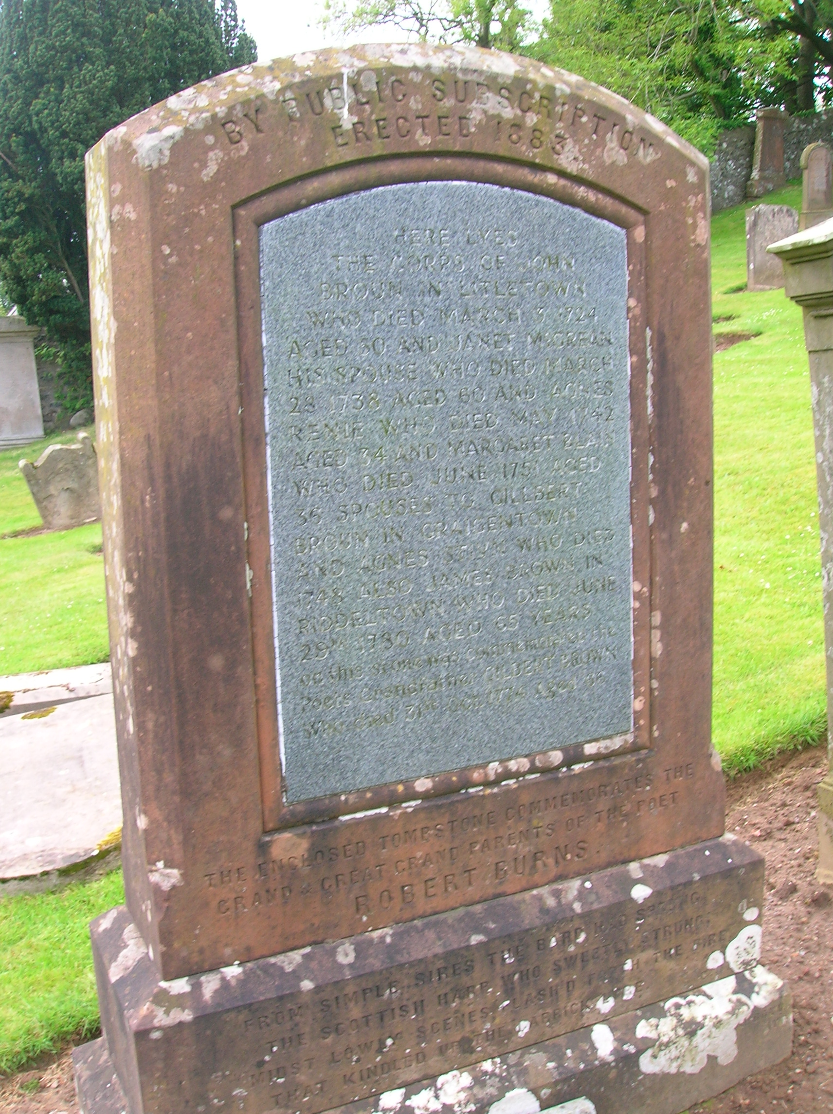 Enclosed tombstone of the Brouns, maternal Grand and Great Grandparents of Robert Burns, Kirkoswald, Ayrshire, Scotland.